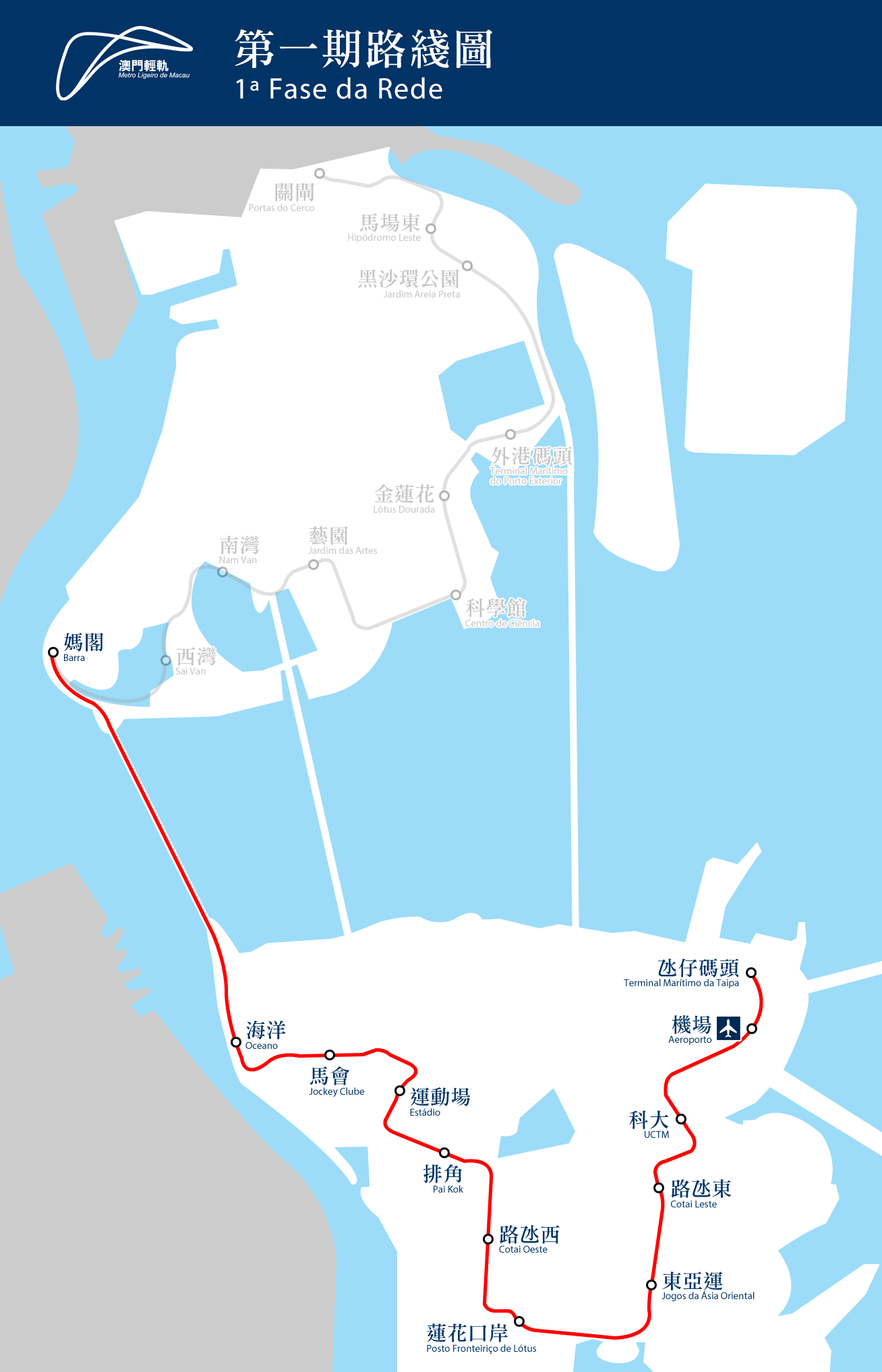 Macau LRT System (1st Phase) Map